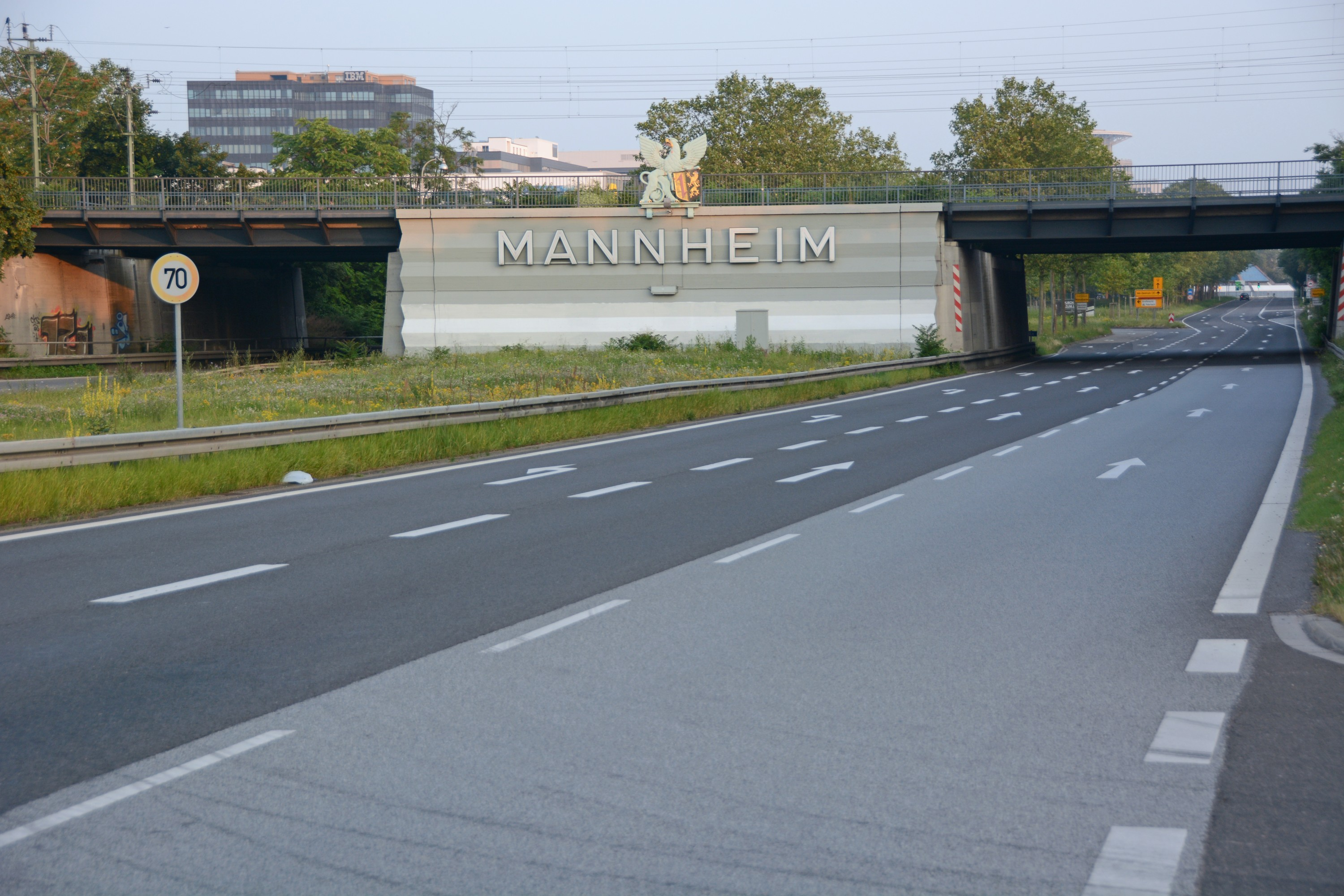 Entrance of Mannheim (Germany) from Autobahn 656 (Heidelberg), Wilhelm-Varnholt-Allee